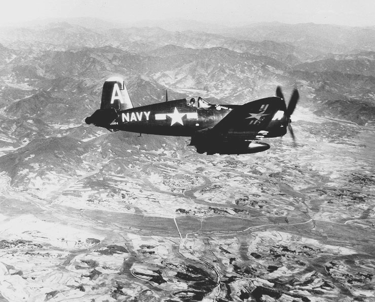 A U.S. Navy Vought F4U-4 Corsair (BuNo 82084) about to make a rocket attack on a North Korean railway bridge, September 1951. The aircraft was most probably assigned to Fighter Squadrons 791 (VF-791) "Fighting Falcons" and was assigned to Carrier Air Group 101 (CVG-101) aboard the aircraft carrier USS Boxer (CV-21) for a deployment to the Western Pacific and Korea from 2 March to 24 October 1951.